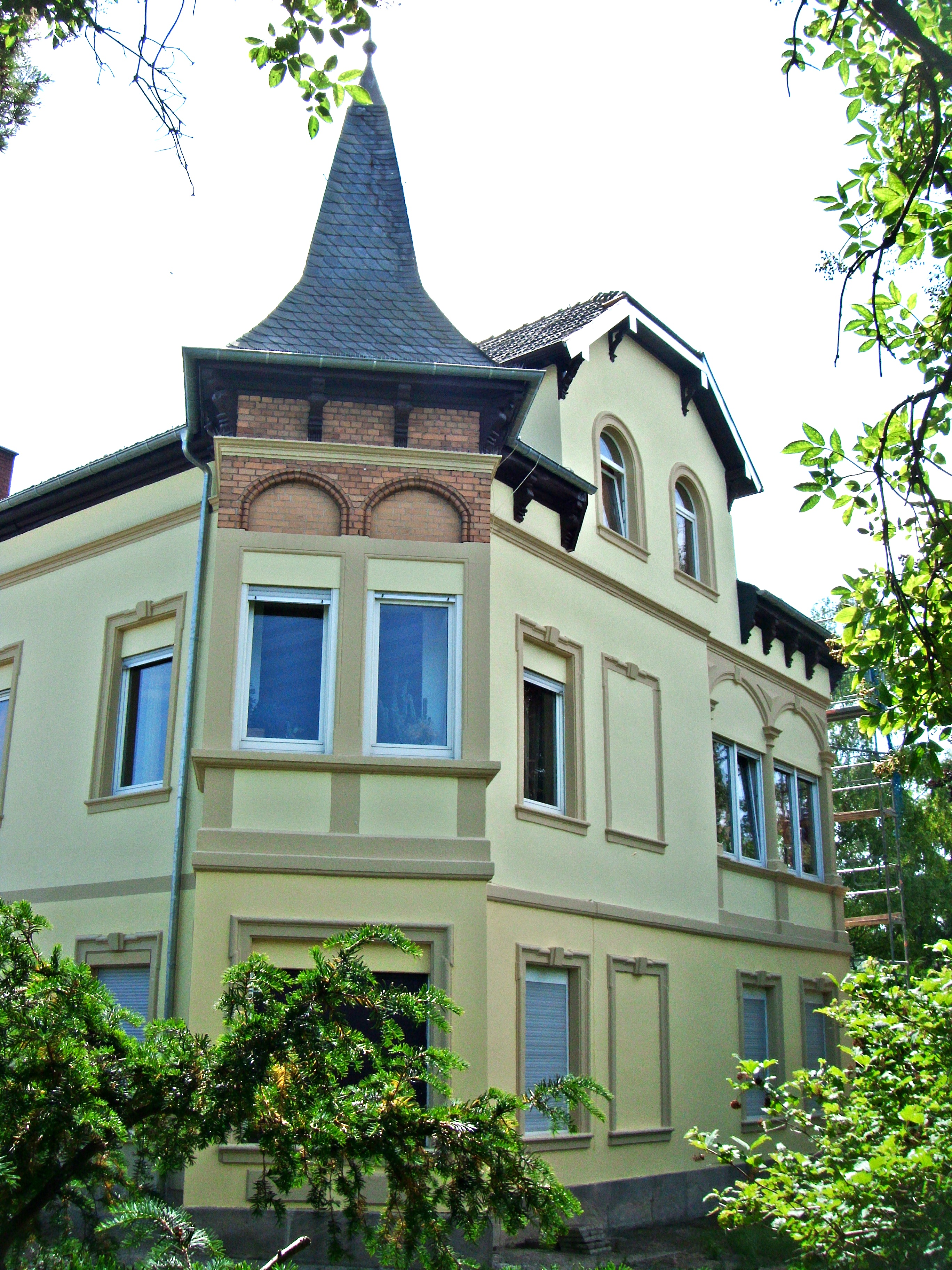 Jagdschloss Lambsheim von Nordwesten